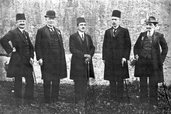 Members of the Albanian government of November 1920, Prime Minister Iliaz Vrioni From left to right: Xhafer Ypi, Tef Currani, Ilias Vrioni, Selaudin Shkoza, Kristo Floqi